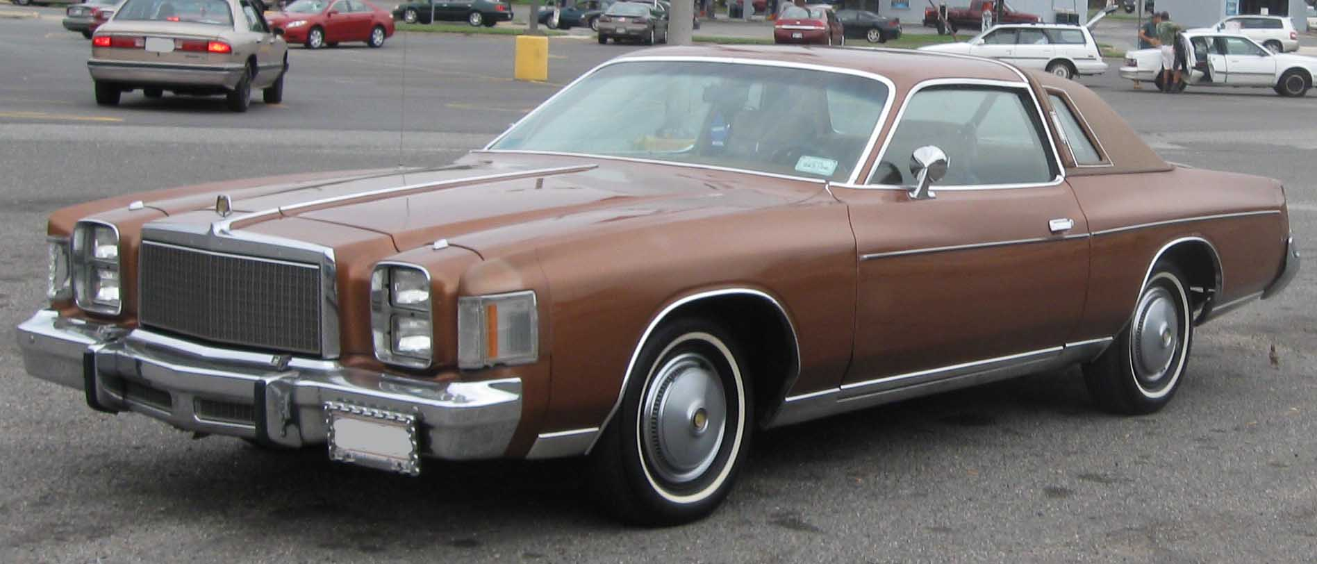 1978 Chrysler Cordoba photographed in Oxon Hill, Maryland, USA.